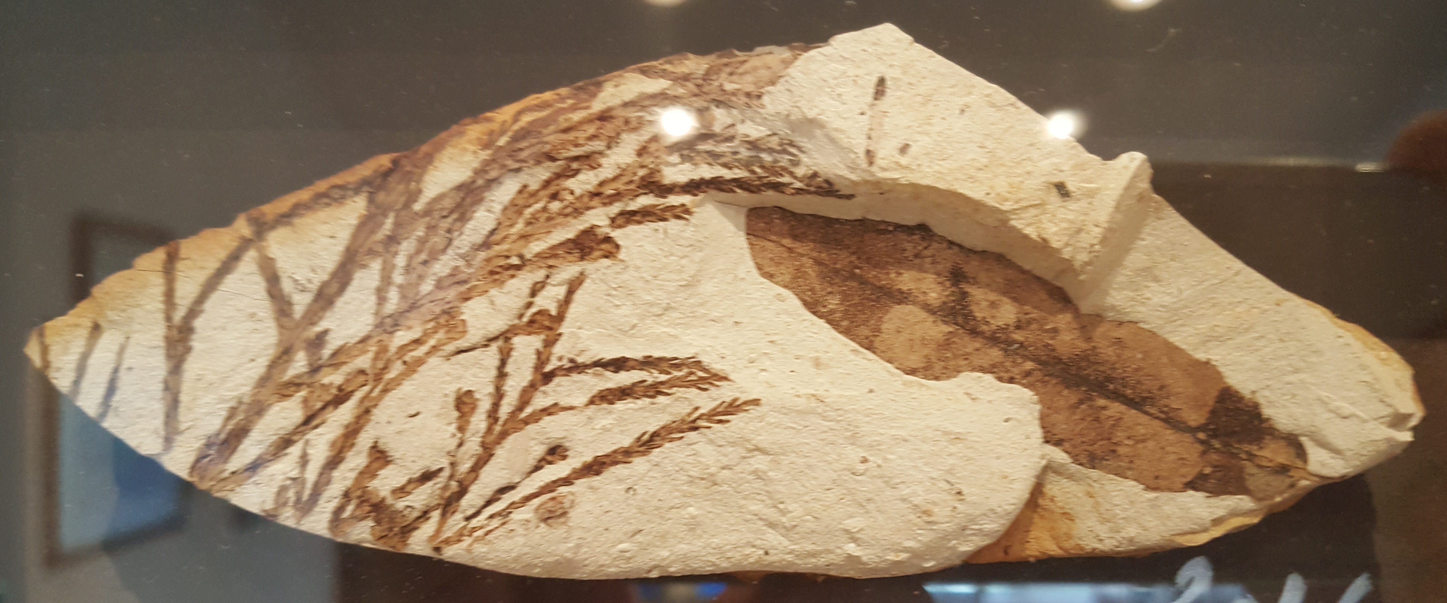 Leaf fossils of Glyptostrobus europaeus and Quercus drymeya from the Pliocene of Kizilcahamam, Ankara Province, Turkey.